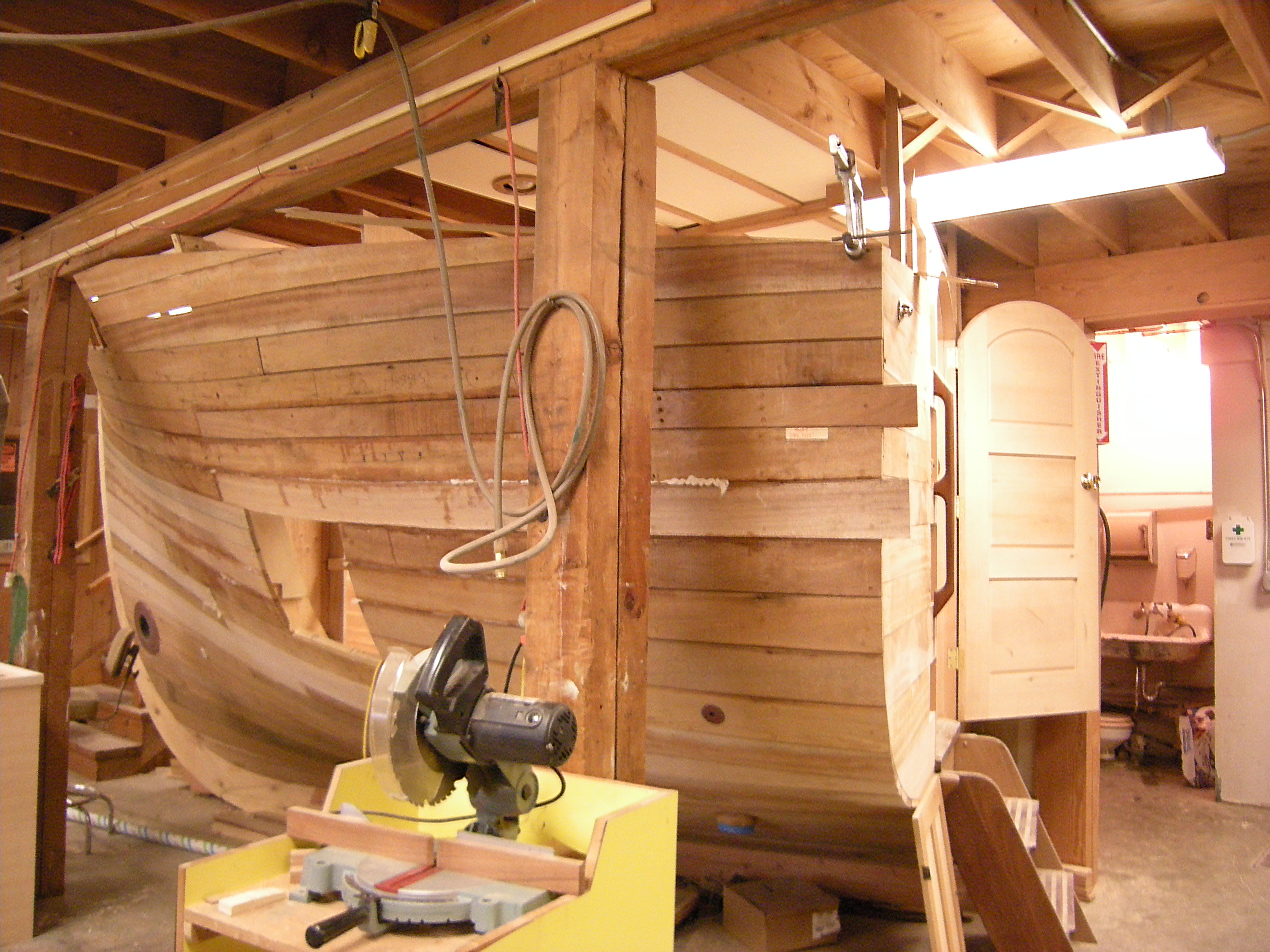 Full-scale model boat, Boat shop, Seattle Central Community College Wood Construction Facility.